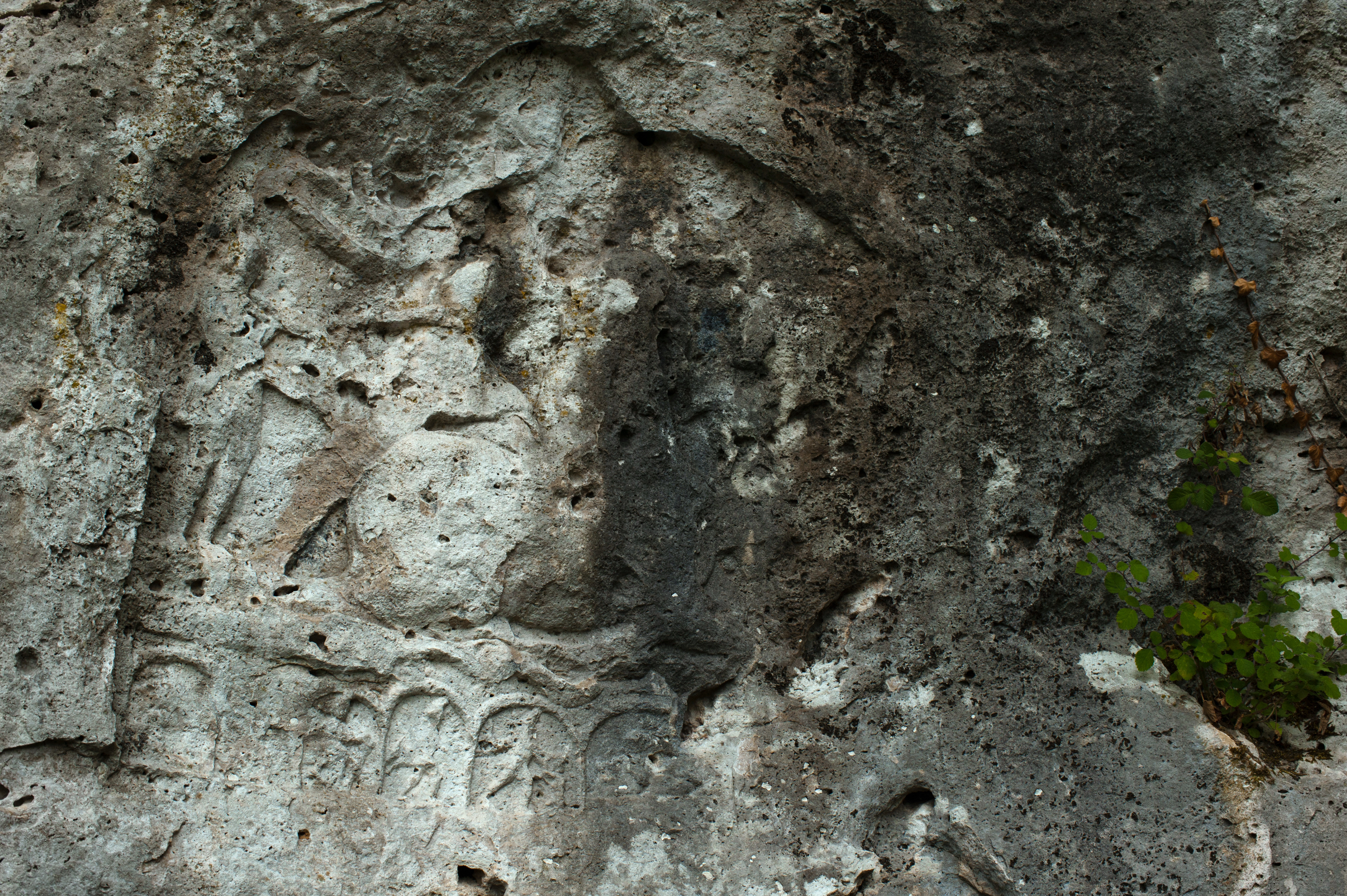 Relief of Mithras - close-up, Kato Thermes village, Xanthi Prefecture, Thrace, Greece.